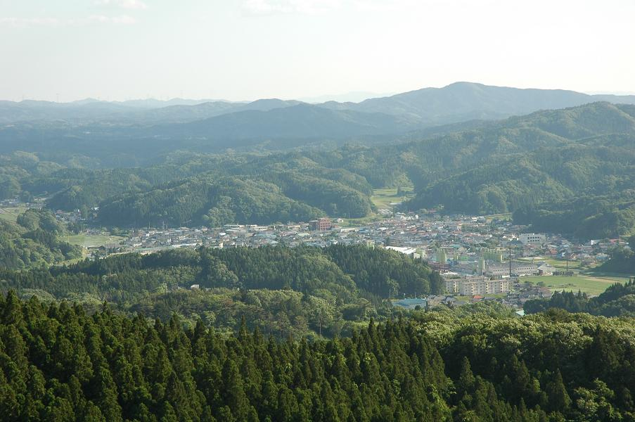 A picture of Takine-machi, Fukushima Prefecture, Japan. Image was taken with a Canon PowerShot SD450 Digital Elph camera and edited using a Paint Shop program on a laptop computer.